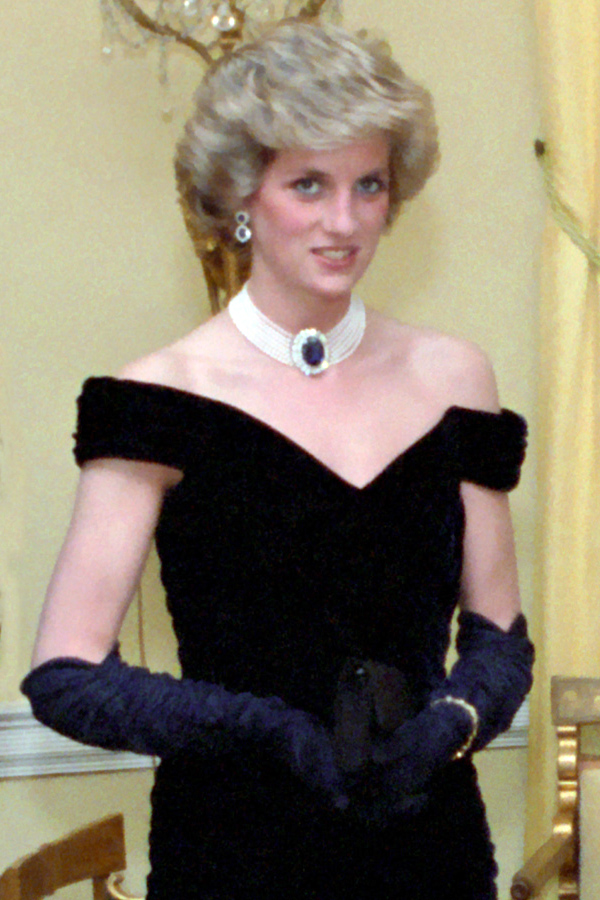 Diana, Princess of Wales in the Yellow Oval room of the White House